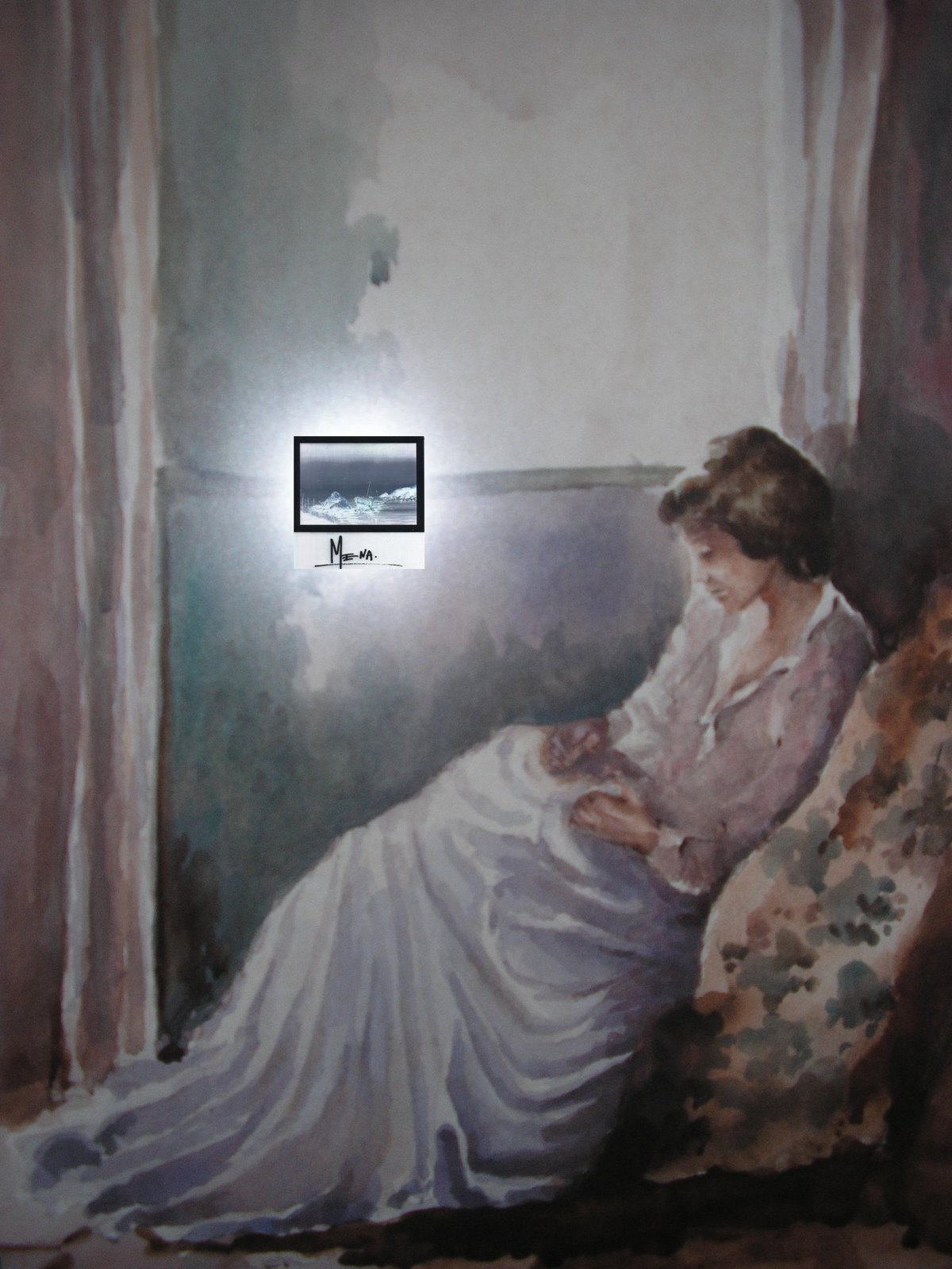 An Artistmena watercolor picture.